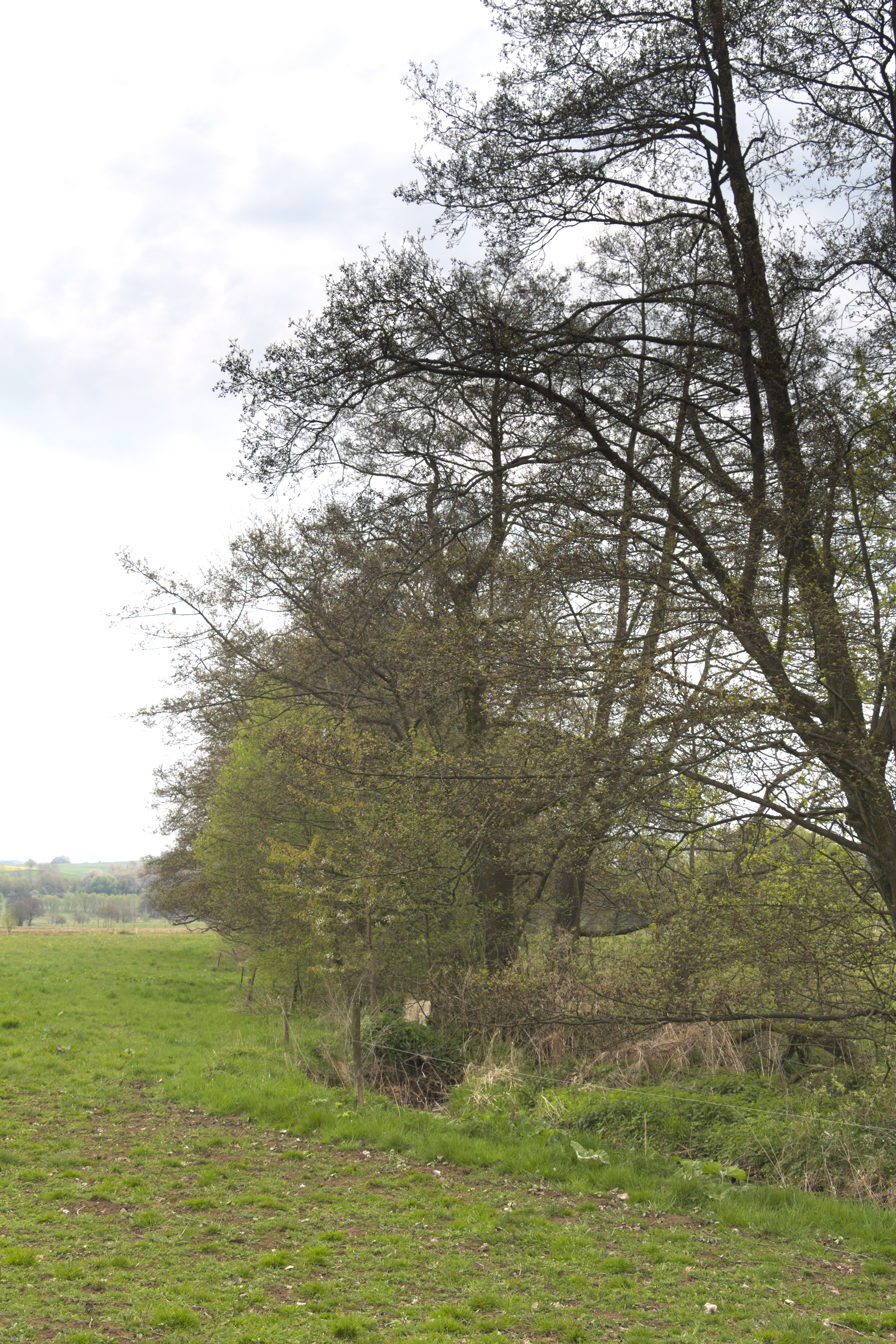 Salz (stream) Site of Community Importance "Talauen bei Freiensteinau und Gewaesserabschnitt der Salz" near Voelzberg, Birstein, Hesse, Germany